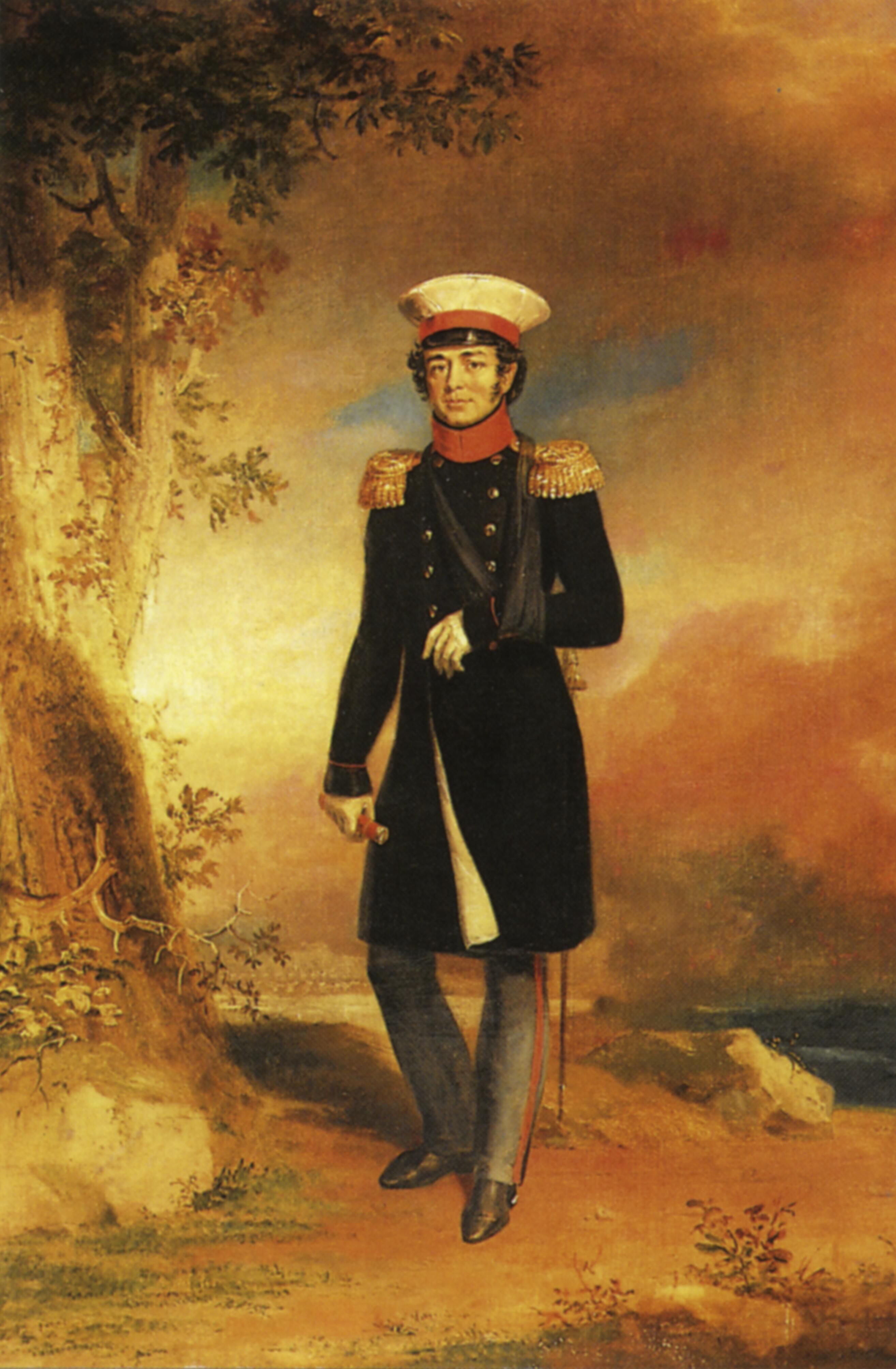 Portrait of Friedrich Wilhelm Rembert (von) Berg as a young officer. His left arm in an Esmarch bandage.